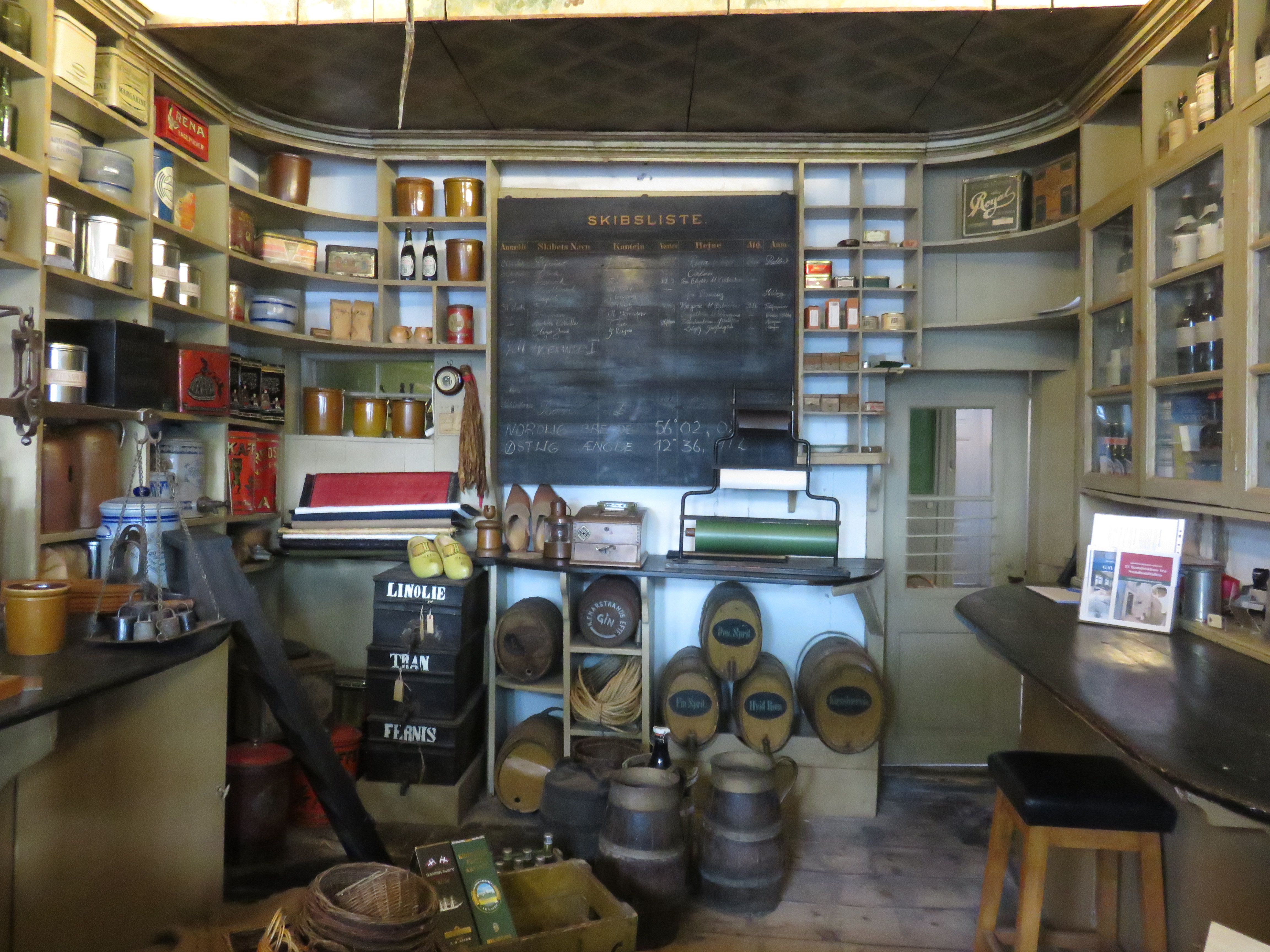 Supplies shop on the ground floor of Skibsklarerergaarden (Shipping Agent's House) in Helsingør, Denmark in 2018